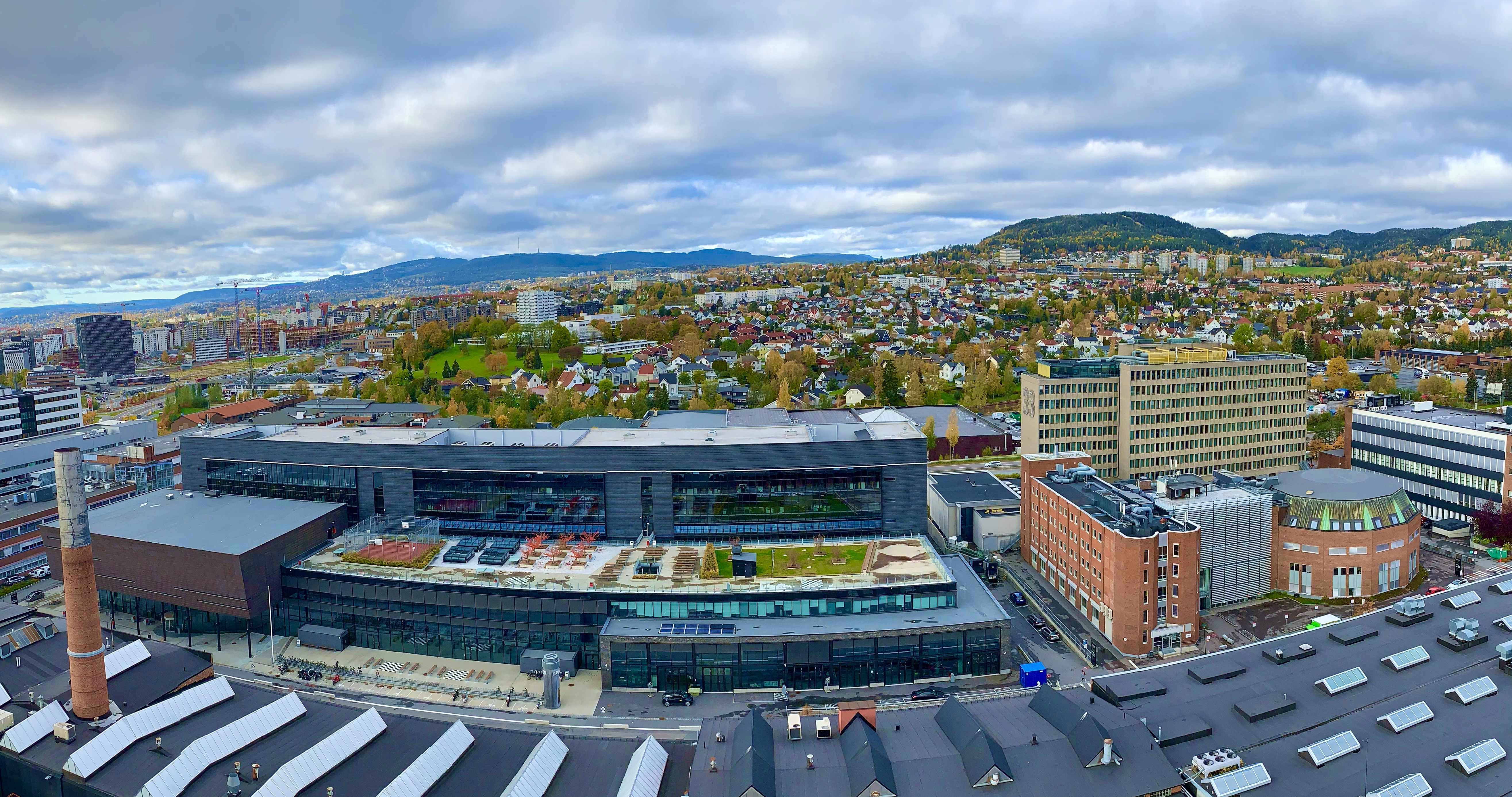 Kuben Upper Secondary School and parts of the Borough og Bjerke